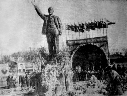 Памятник